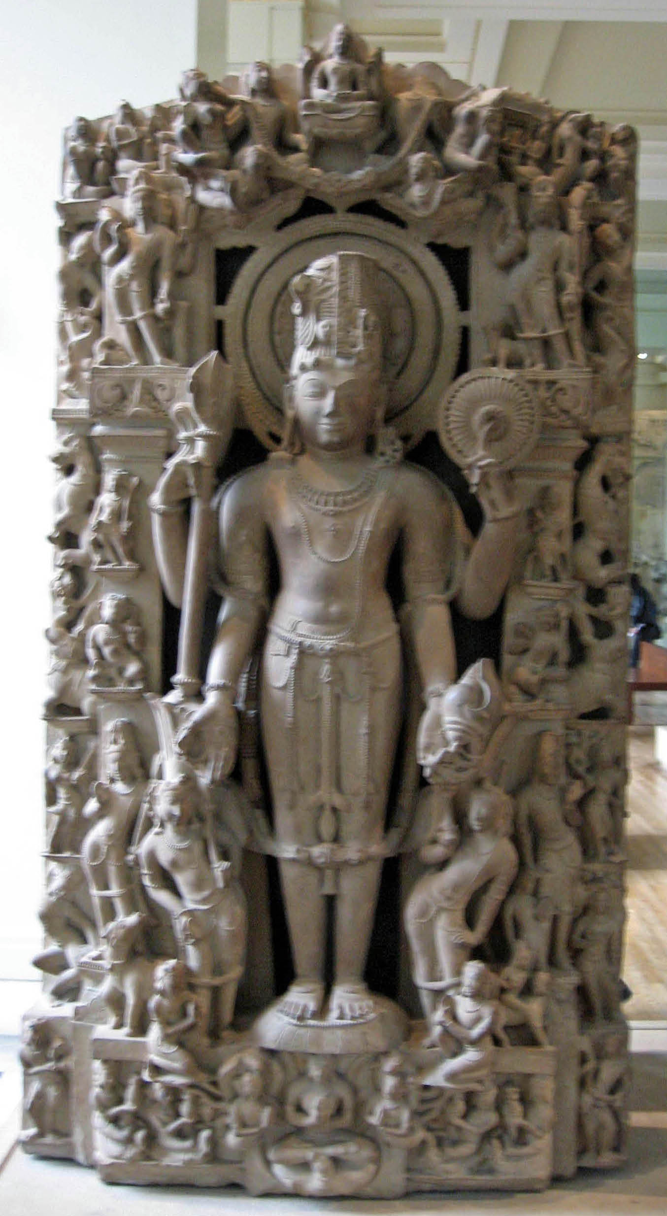 Photo of Harihara taken at the British Museum